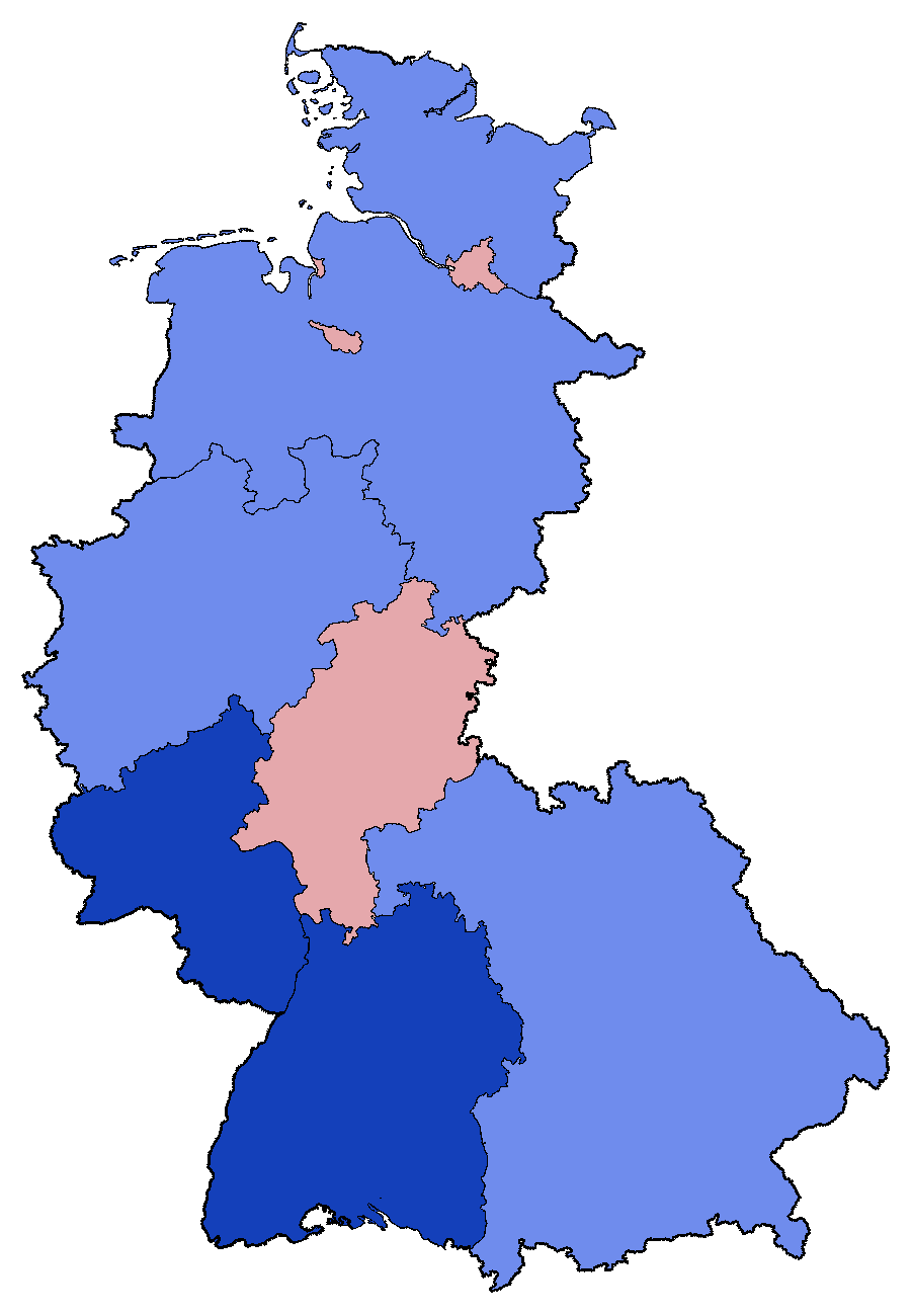 Electoral map showing the party list vote results (Zweitstimmen) of the 1953 Bundestag (West German parliament) elections by state. Lighter blue denotes states where CDU/CSU had the plurality of votes; darker blue denotes states where CDU/CSU had the absolute majority of the votes; and pink denotes states where the SPD had the plurality of votes.